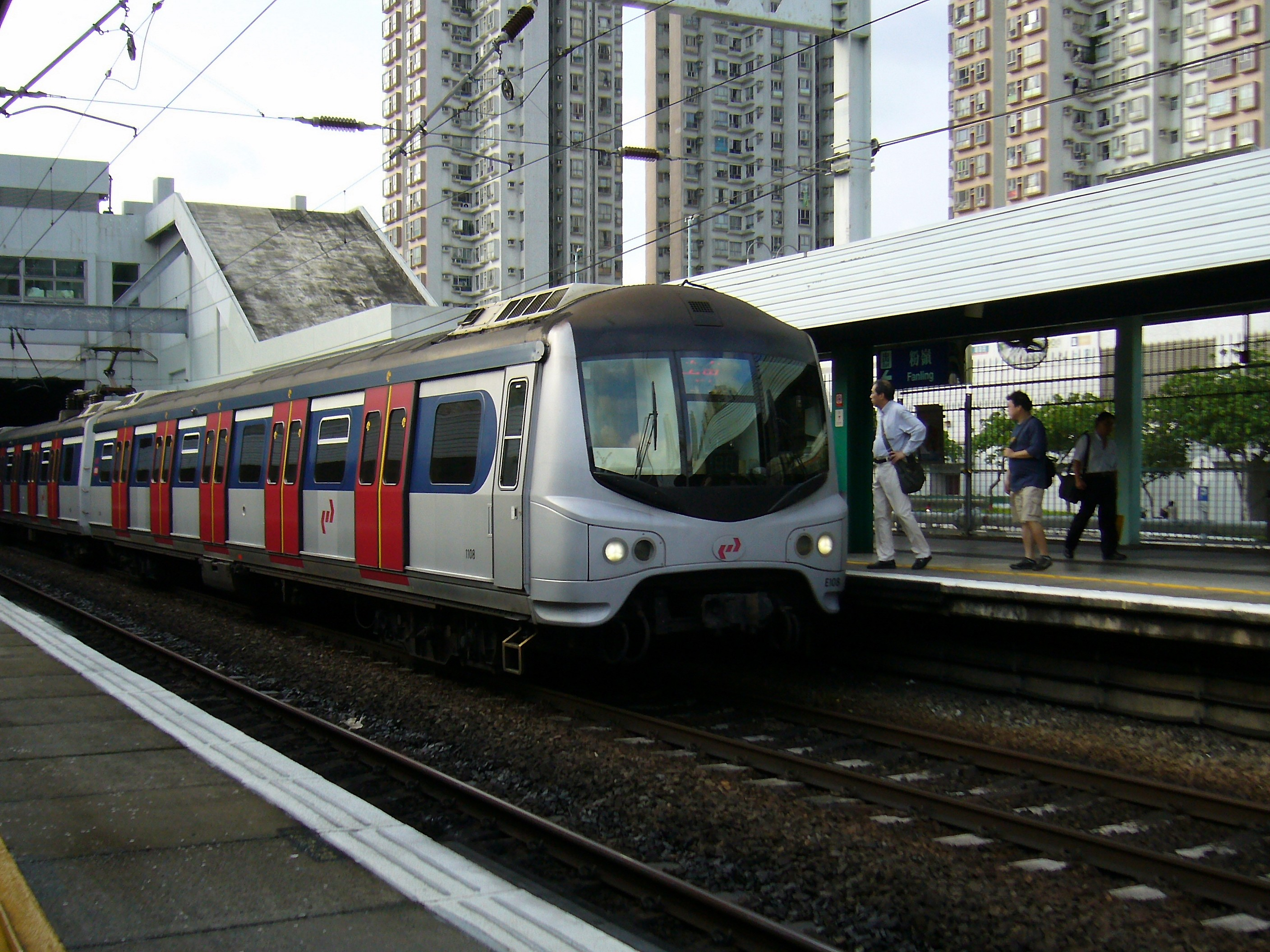 Metro Cammell EMU of East Rail before rail merger